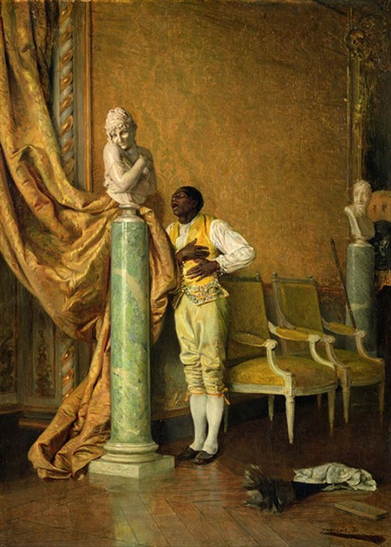 Platonic Love